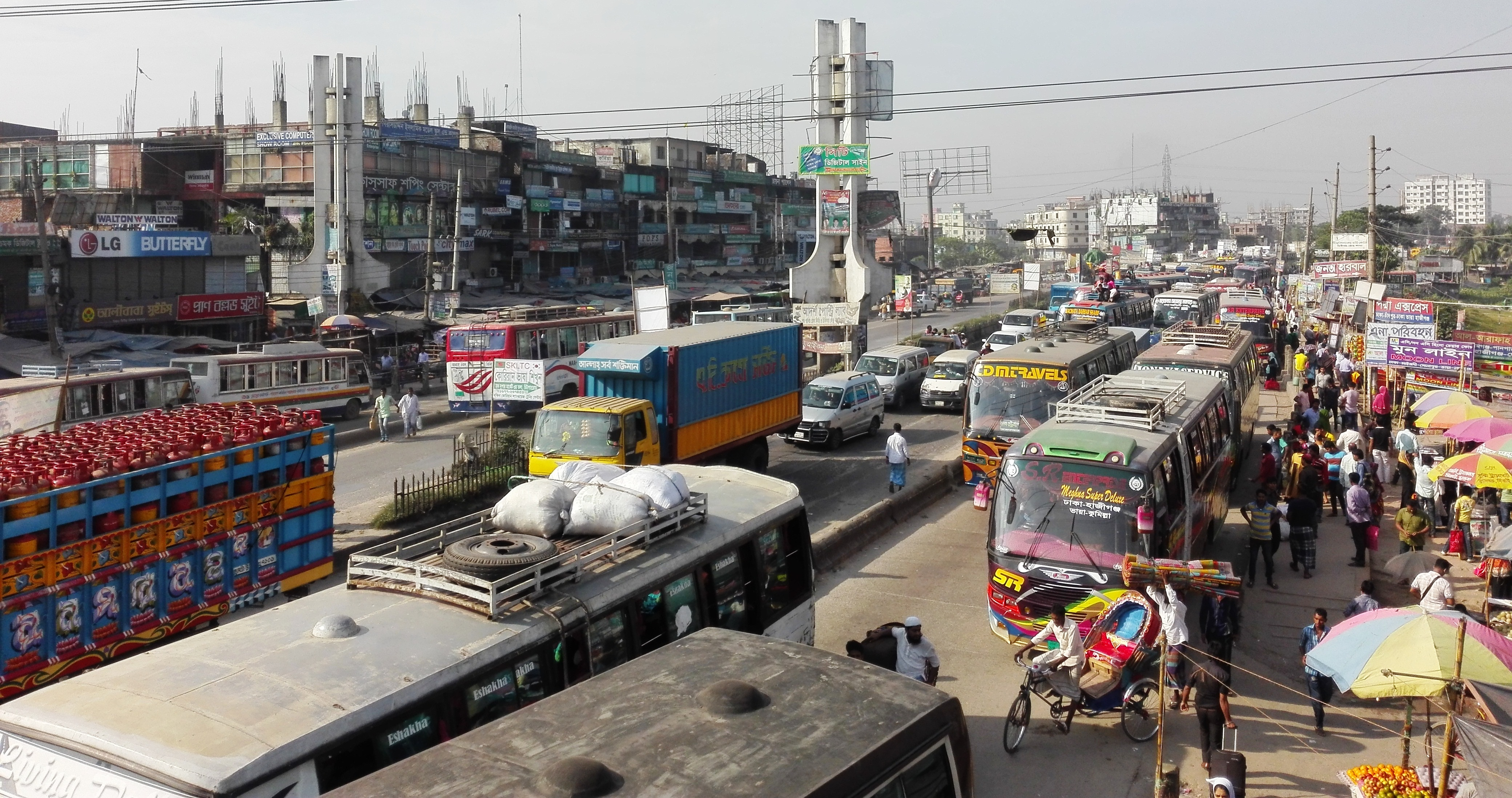 Chittagong road, Narayanganj